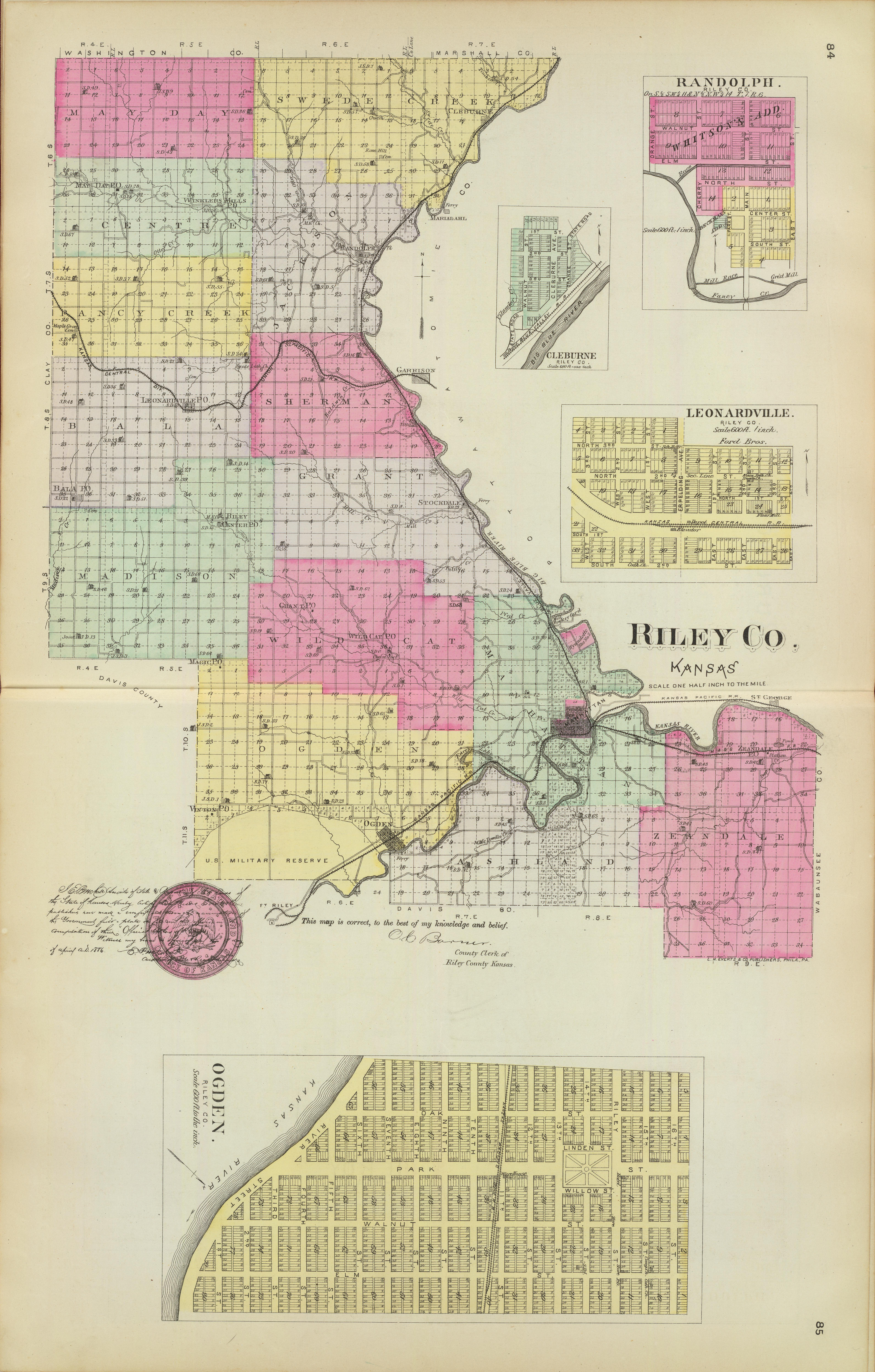 Township map of Riley County, Kansas. Original size 67 × 41 cm. Scale 1:126,720